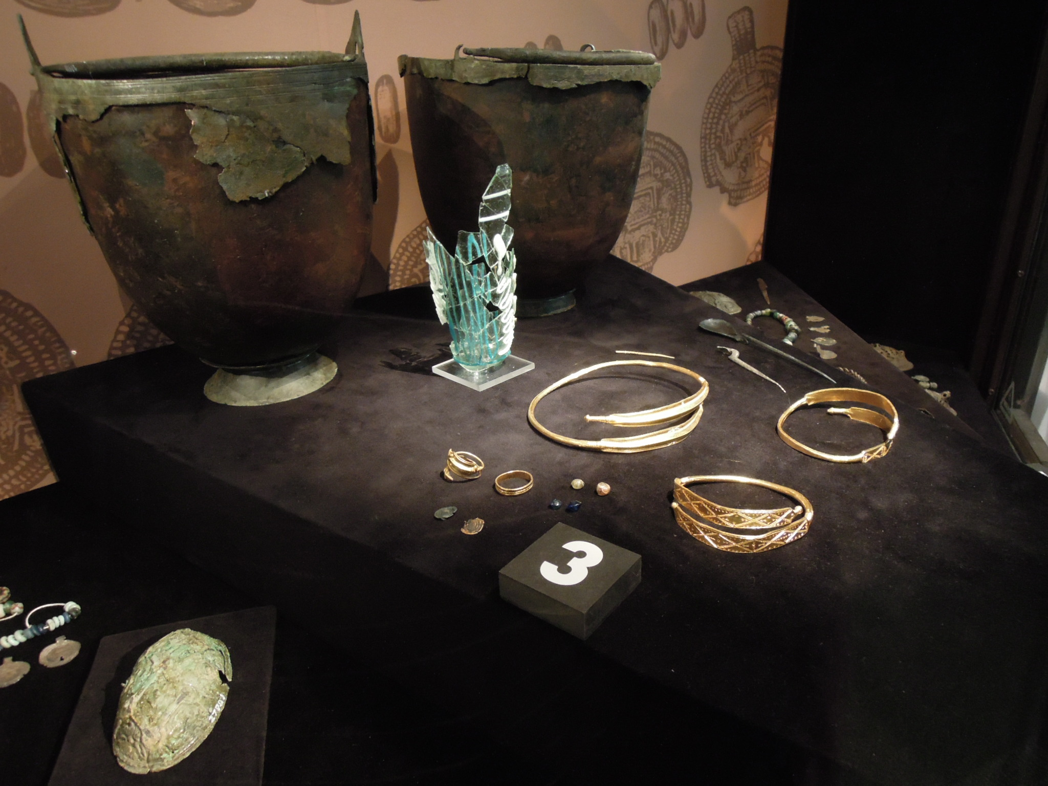 Gold from a grave in Tuna in Badelunda outside Västerås, Sweden, from the 3rd century. It was found in 1952. Picture taken 2014 in Västmanlands läns museum in Västerås. A high ranked woman was buried together with parts of 2 bronze cups, 1 glass beaker, 2 silver spoons, 2 sheets of guilded silver, 2 fingerrings in gold, 2 gold needles, 2 gold armrings, 1 gold neckless, 4 glass beads. Several objects origins from Denmark.